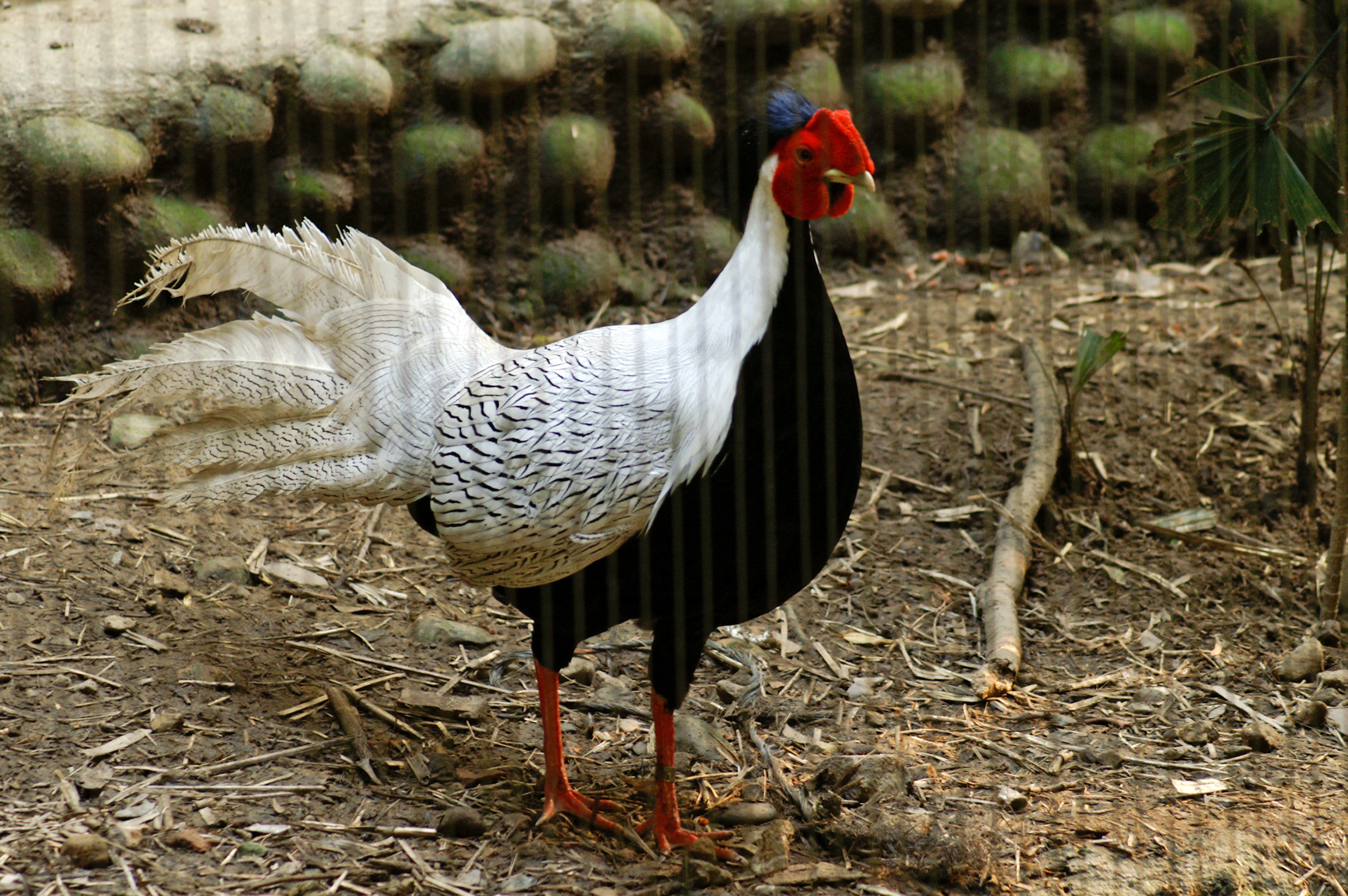 male silver pheasant白鷴雄鳥 Lophura nycthemera